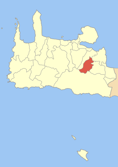 Locator map of Fres municipality (Δήμος Φρε) in Chania prefecture (Νομός Χανίων) in Greece.